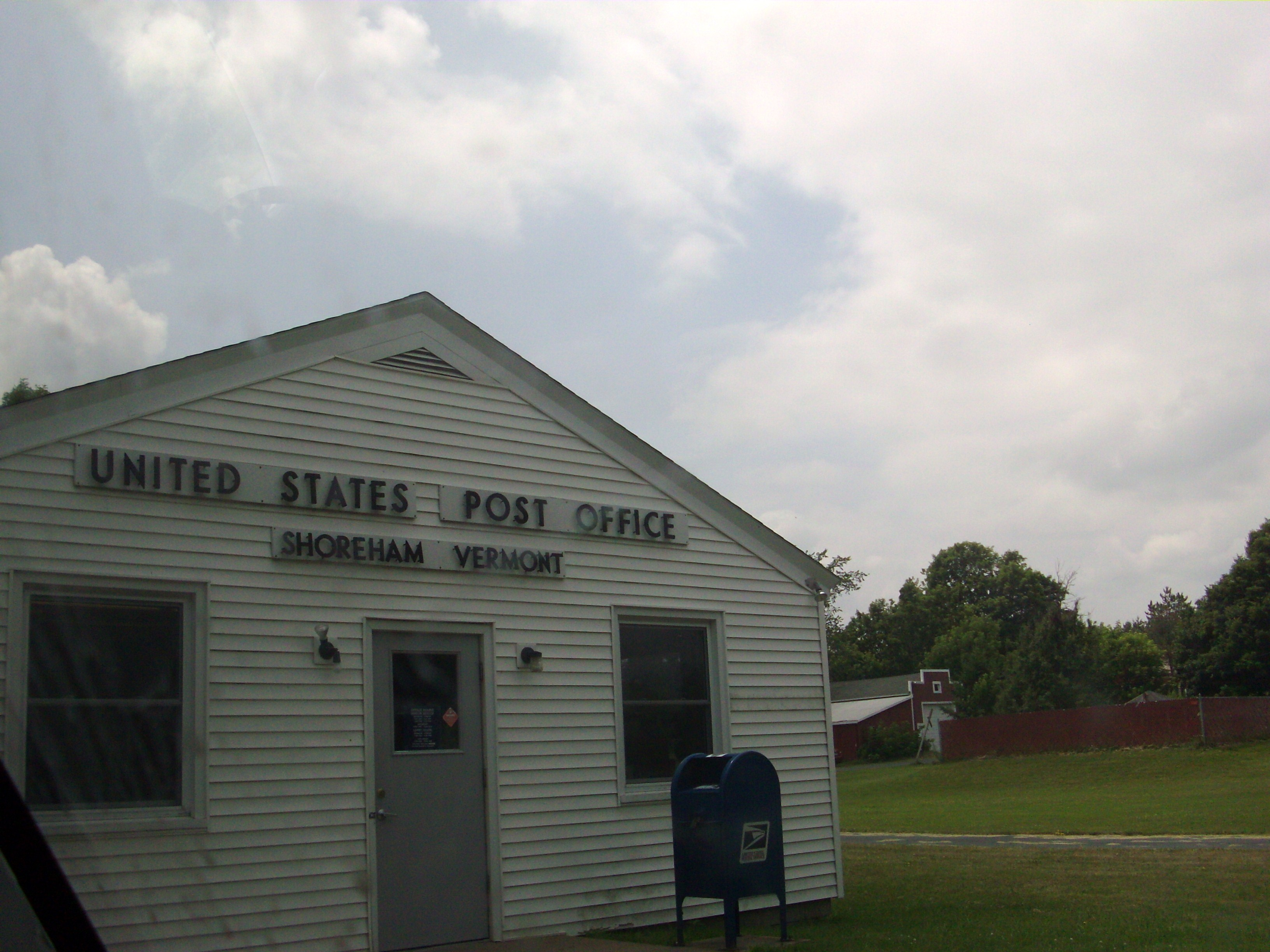 United States Post Office on VT Route 74 in Shoreham, Vermont